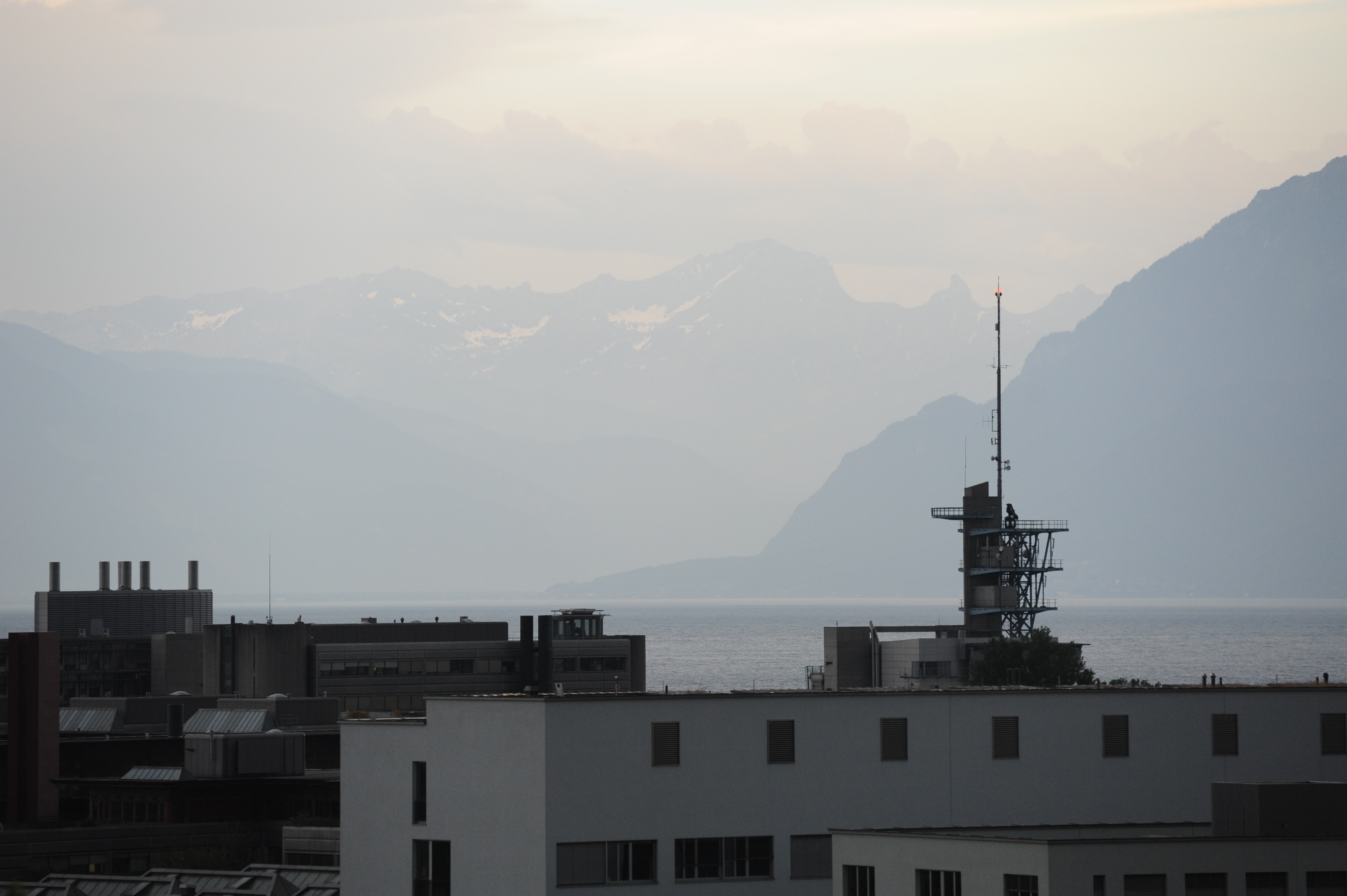 A look across the lake after sunset, from Ecublens (EPFL buildings in front)